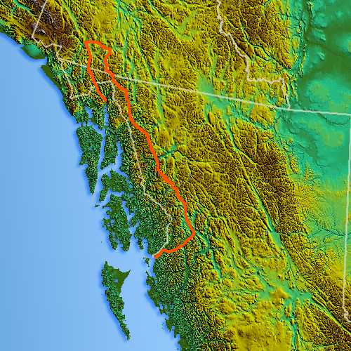 Map of Boundary Ranges, based on Northwest-relief.2.png